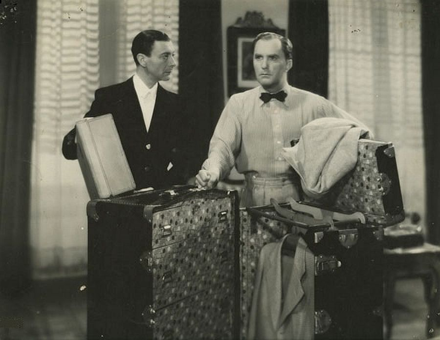 Scene from the Hungarian movie titled Segítség, örököltem (Help! I'm A Heiress!) (released in 1937)